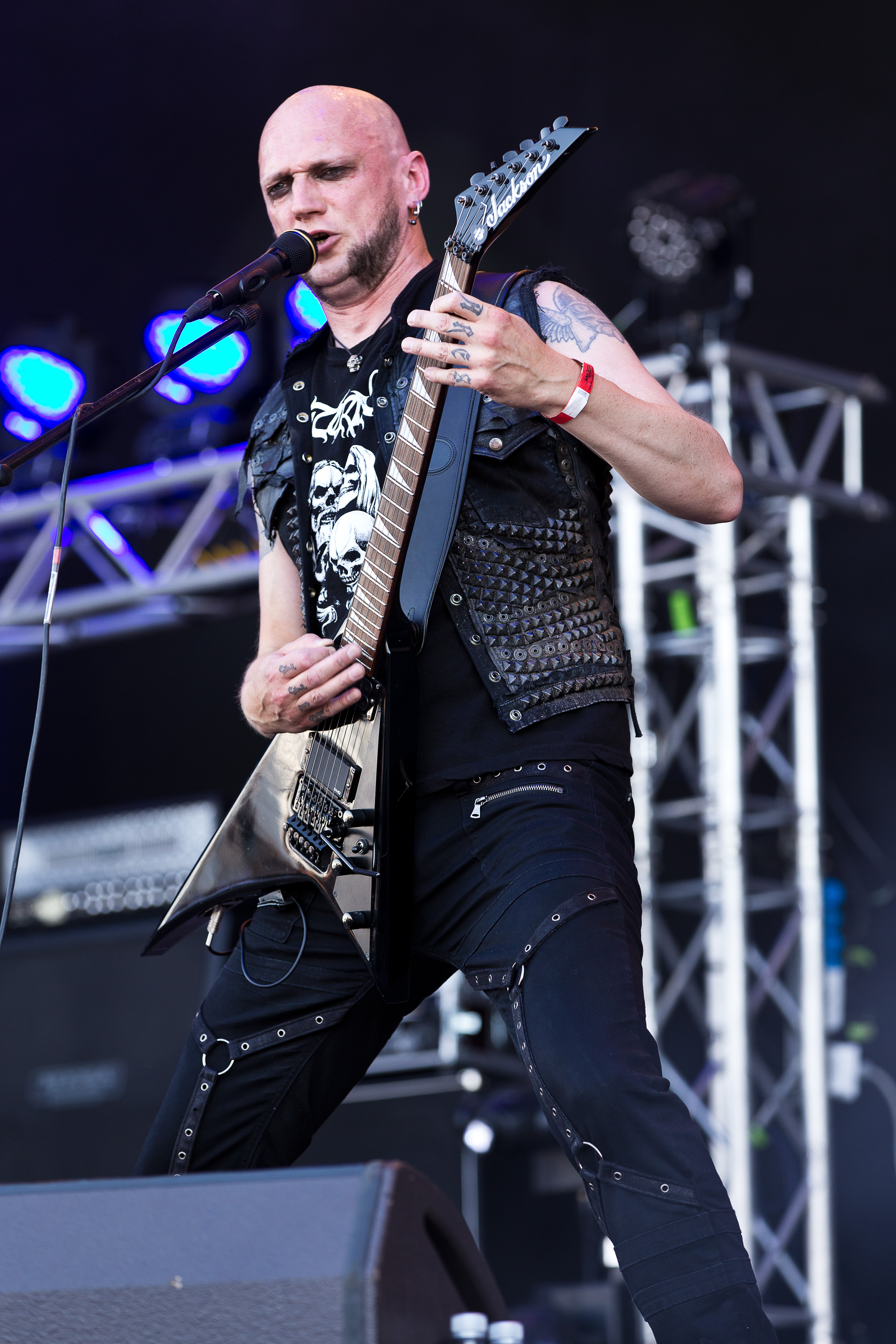 The Norwegian black metal band Aeternus at the Party.San Open Air 2015 in Obermehler-Schlotheim/Germany.